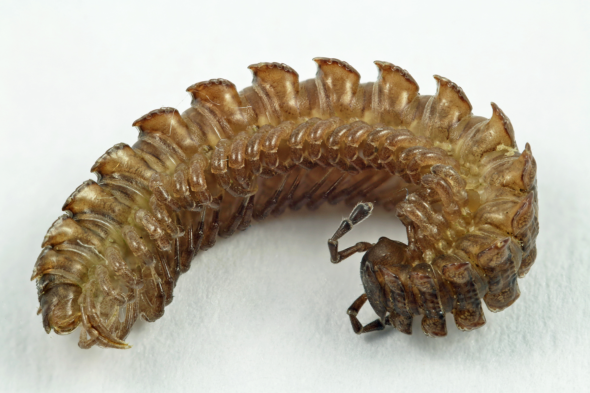 A Milliped, prob. Polydesmus cf. complanatus. Dead specimen found drowned in a pool. Body length ~17 mm (outstretched).